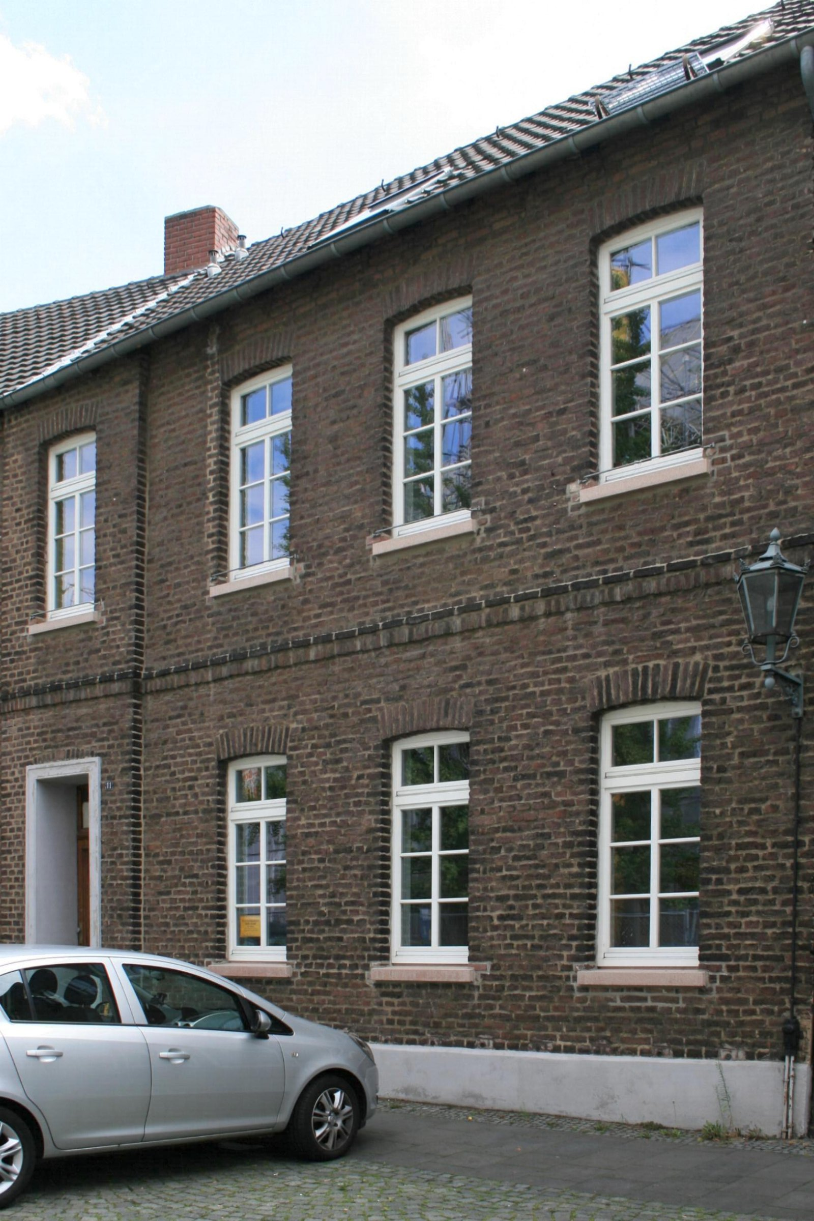 Cultural heritage monument No. K 092 in Mönchengladbach